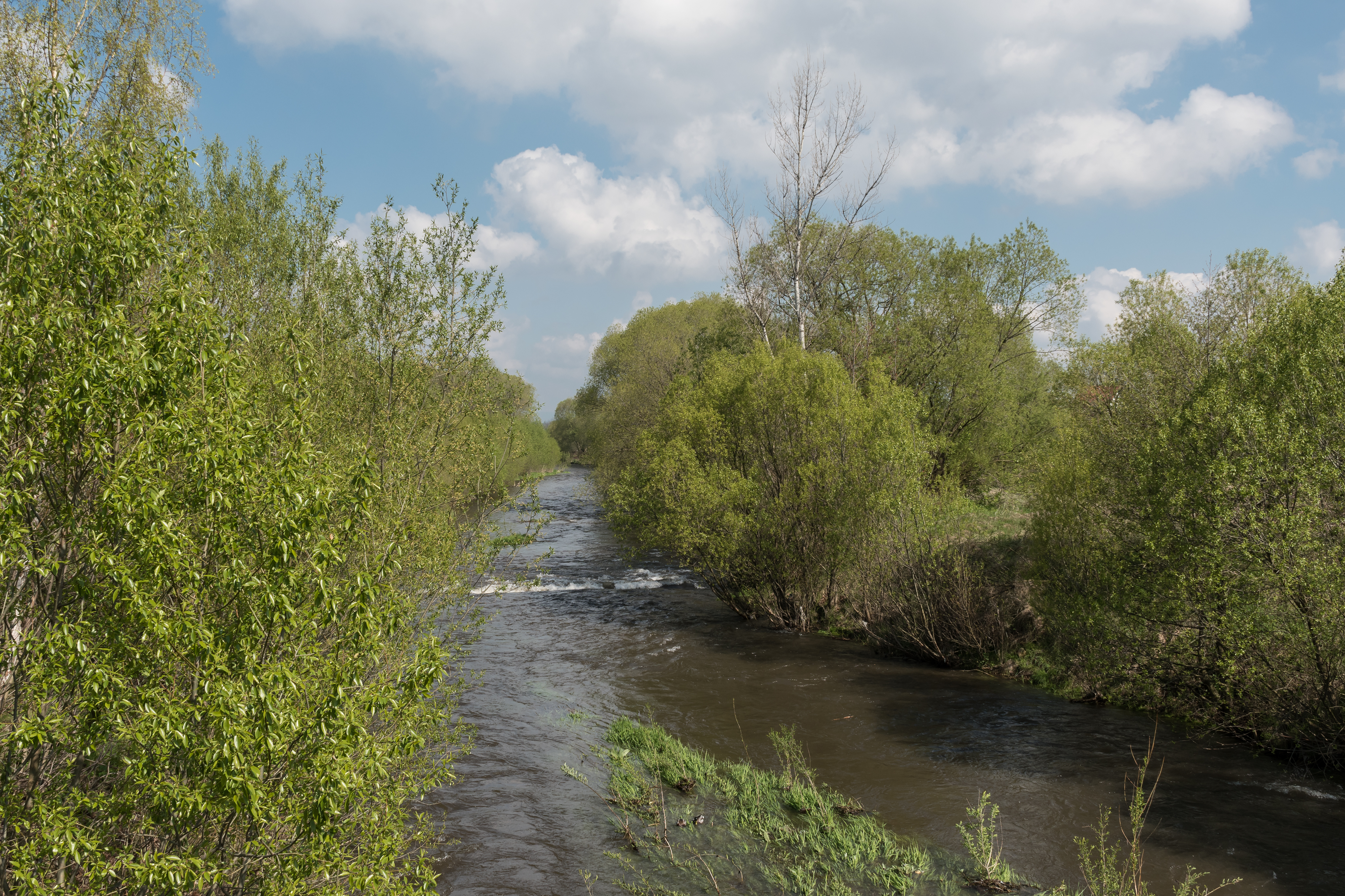 Biała Lądecka in Krosnowice